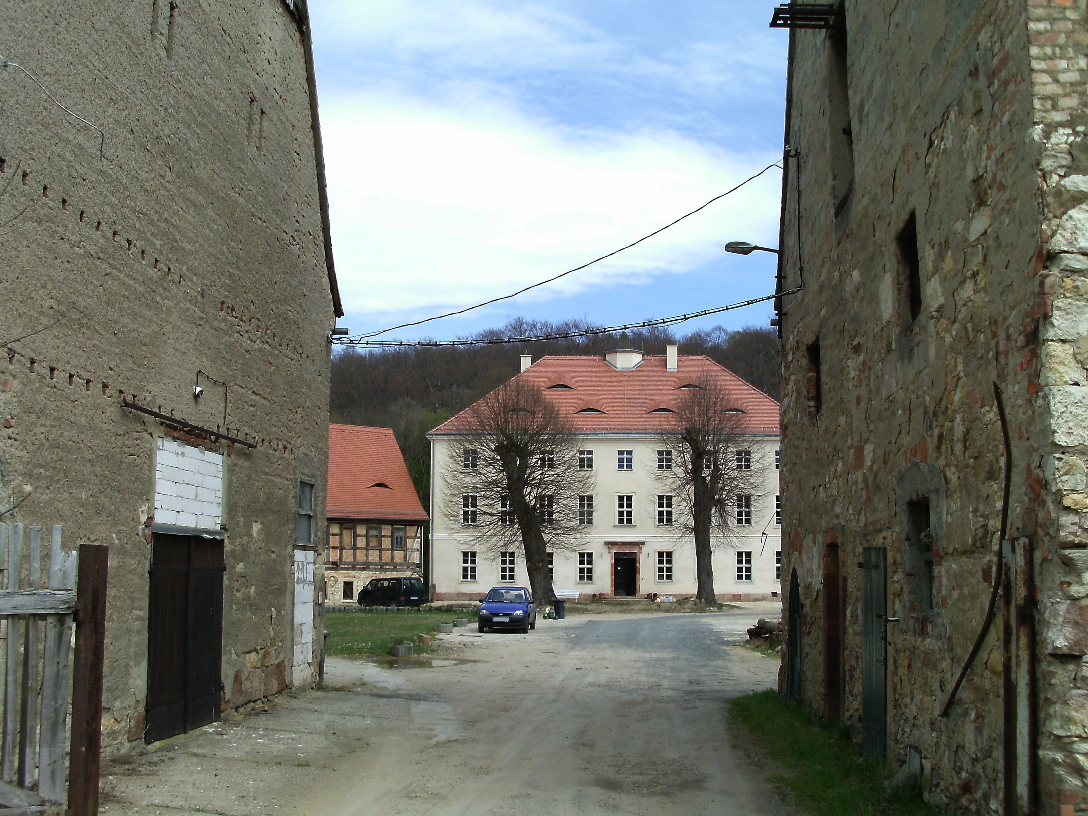 Rüdigsdorf estate (Kohren-Sahlis, Leipzig district, Saxony)